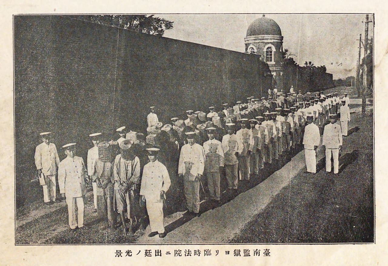 Defendant in Ta-pa-ni Incident